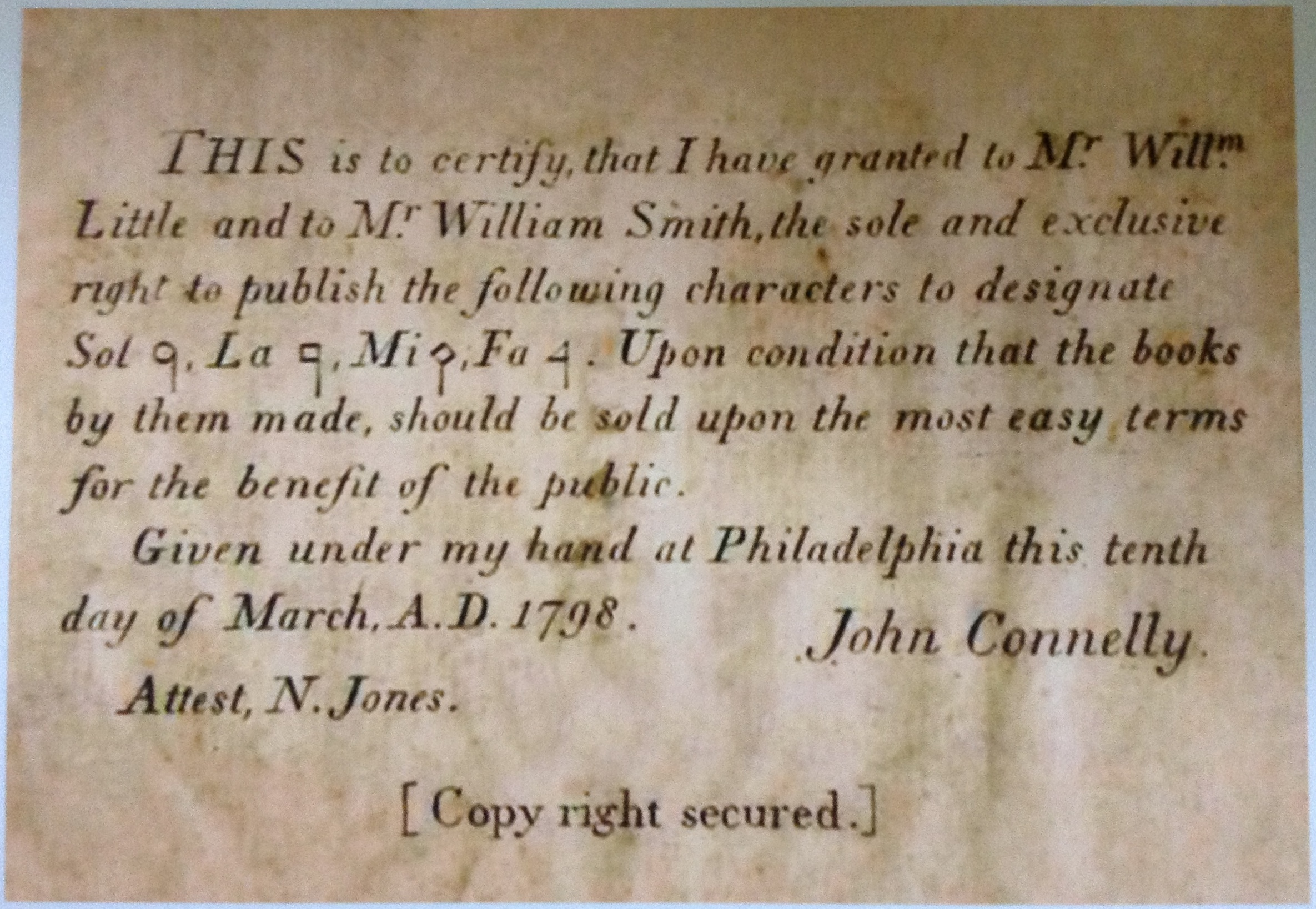 Statement by John Connelly granting rights for the use of his fa/sol/la/mi characters by Wm. Little and Wm. Smith in their publications